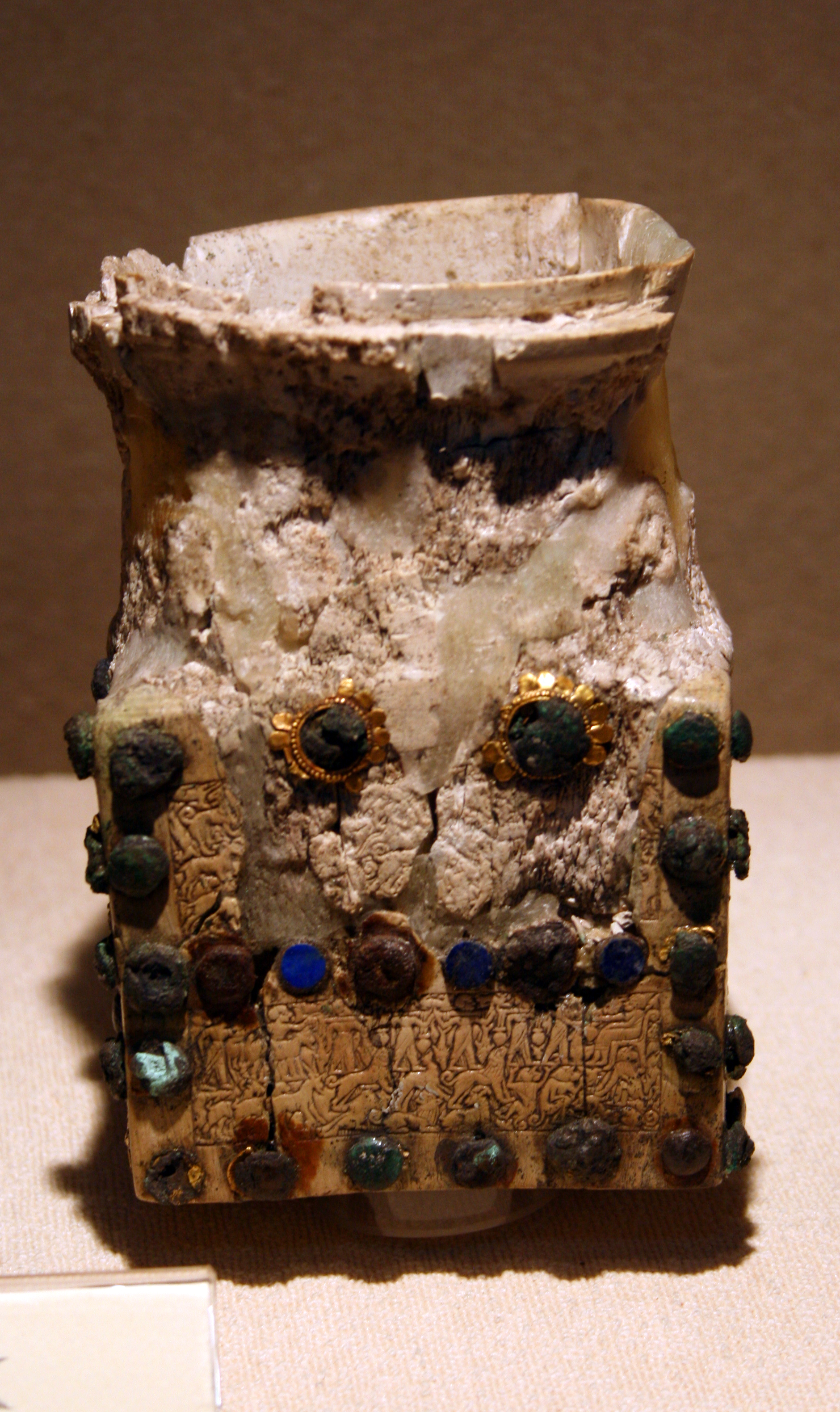 A finely curved and decorated ivory box from Acemhöyük, an archaeological site in Turkey. Its decoration includes several iron, bronze and lapis lazuli studs. Since the box was carved out of a single piece of ivory, it is very hard to find its place of origin, which is still uncertain.